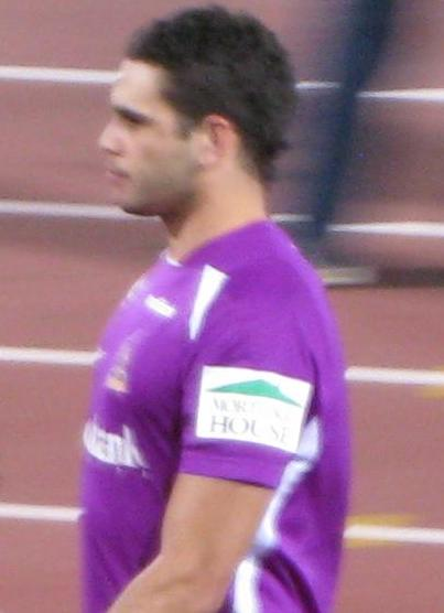 Greg Inglis